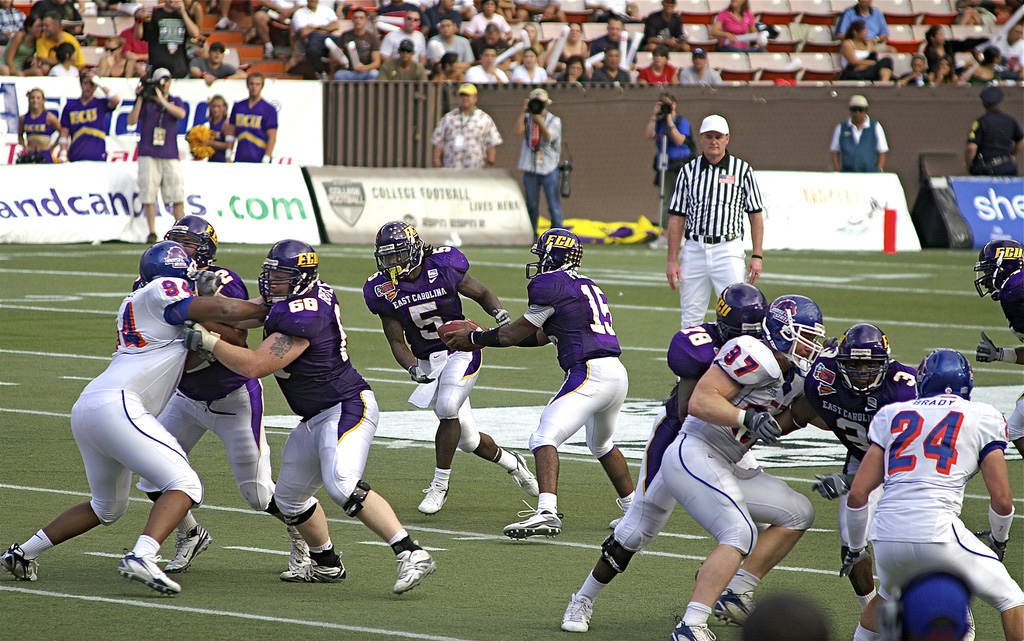 Boise State University vs East Carolina University - Chris Johnson handoff